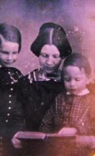 A portrait of Fanny Appleton. "Wife of Henry Wadsworth Longfellow, Fanny Appleton Longfellow, with sons Charles and Ernest."